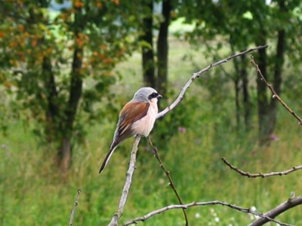 male Red-backed shrike